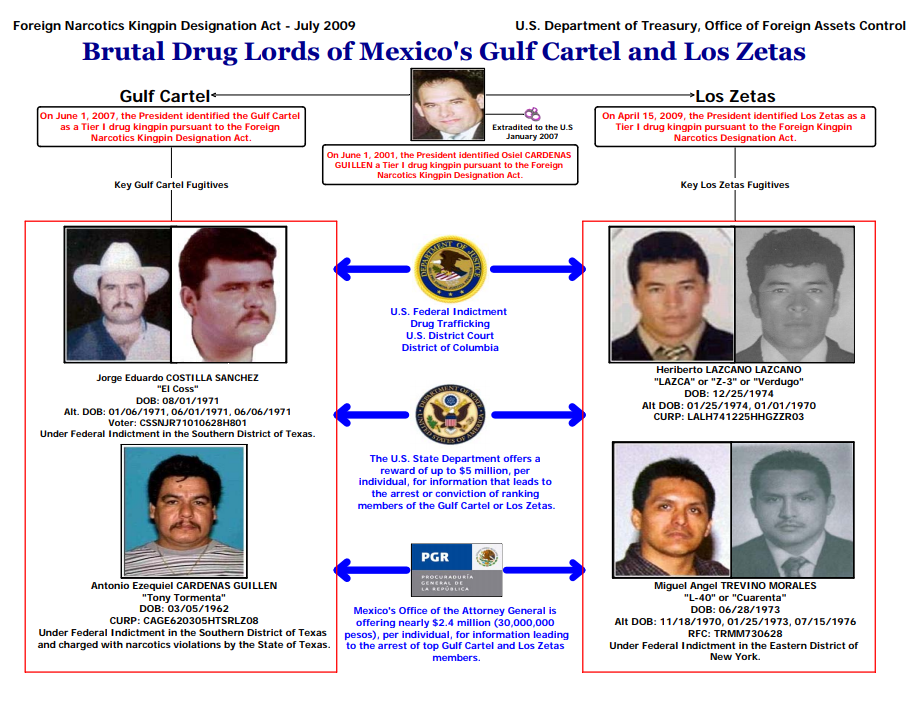 Chart displaying the leadership structure of the Gulf Cartel and Los Zetas in July 2009.